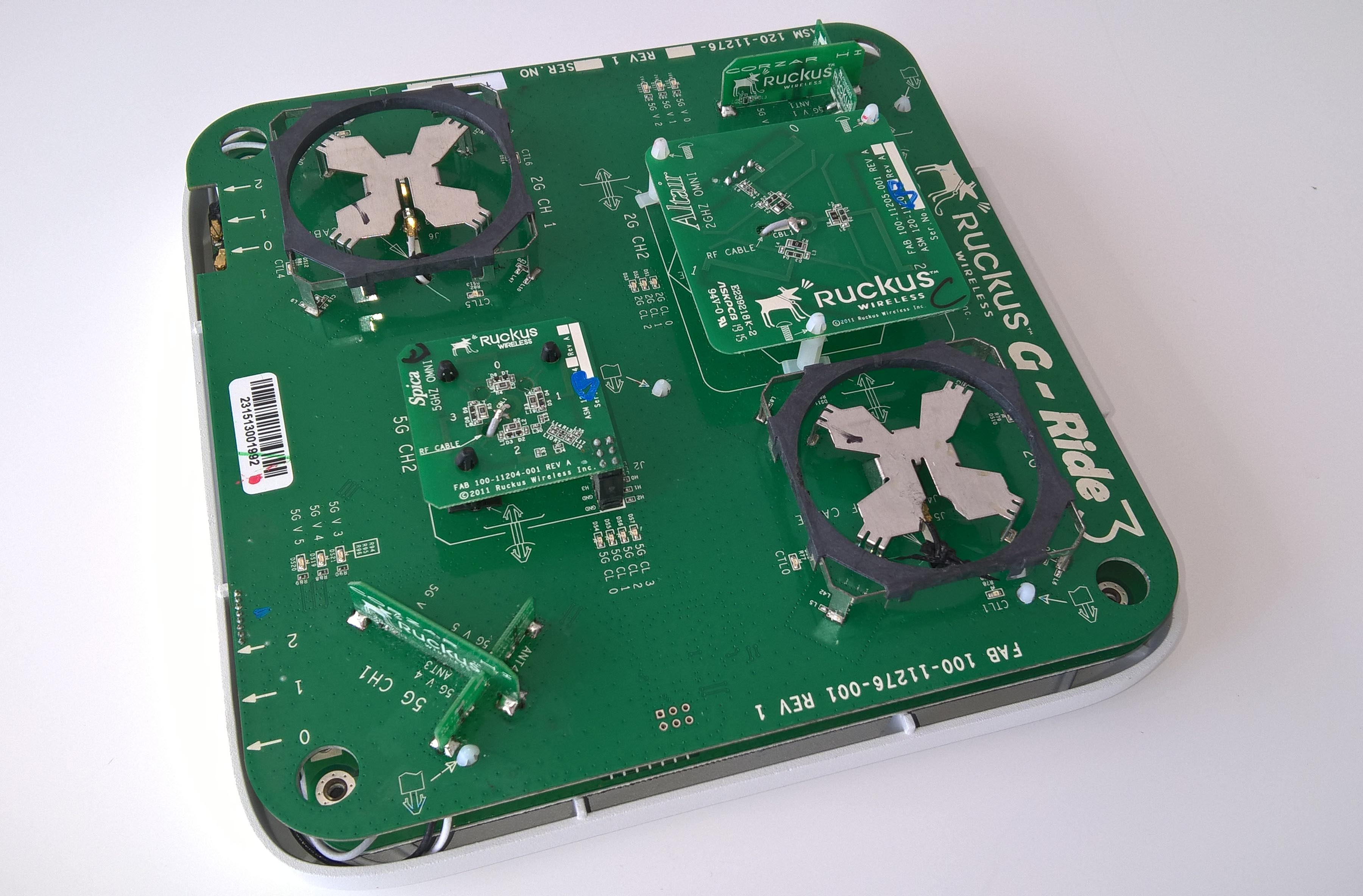 Antennas of Ruckus Wireless ZoneFlex R700, indoor access point, concurrent dual-band 802.11abgn/ac, 3x3:3 streams, BeamFlex+